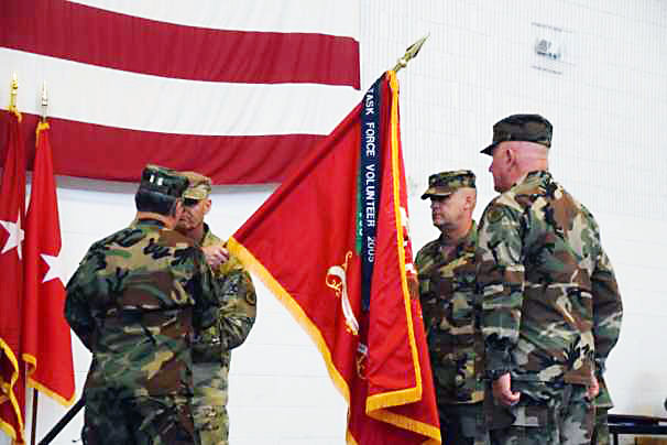 Brig. Gen. Kenneth Takasaki (L) relinquishes the colors to Brig. Gen. Tommy Baker, Assistant Adjutant General-Army, Tennessee National Guard (2nd from left) prior to transferring them to Brig. Gen. Craig Johnson (2nd from right). (Staff Sgt. Tim Belcher, Joint Public Affairs, Tennessee National Guard)